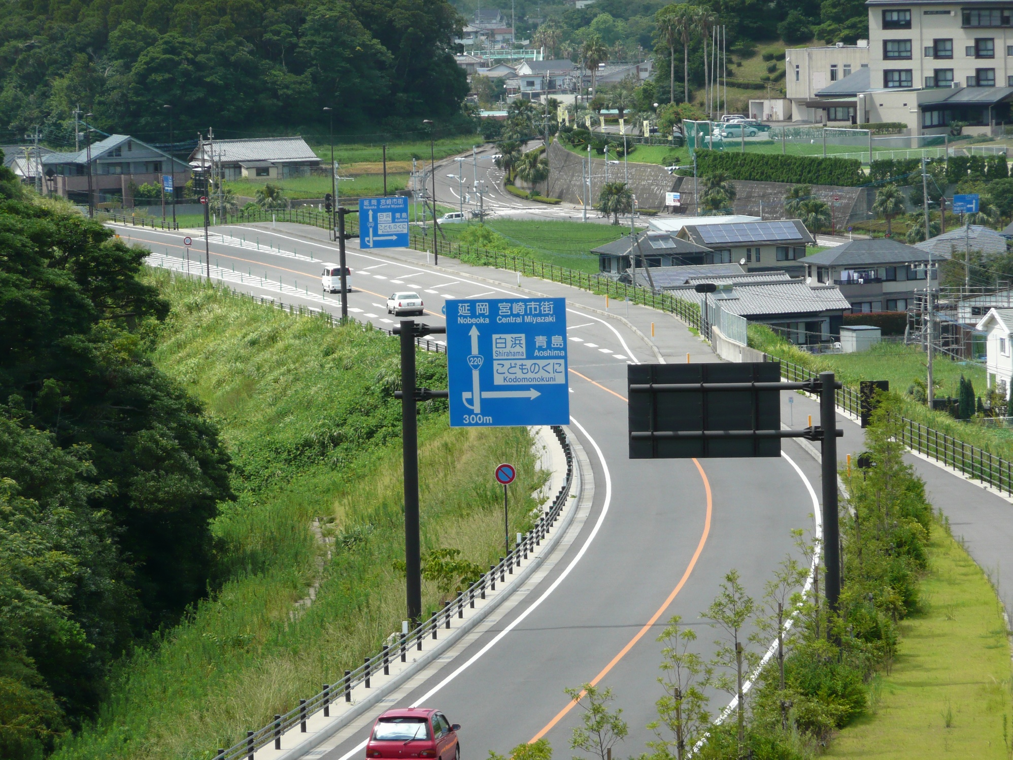 Route 220 Aoshima Bypass (Aoshima Parking - Miyazaki City, Japan)